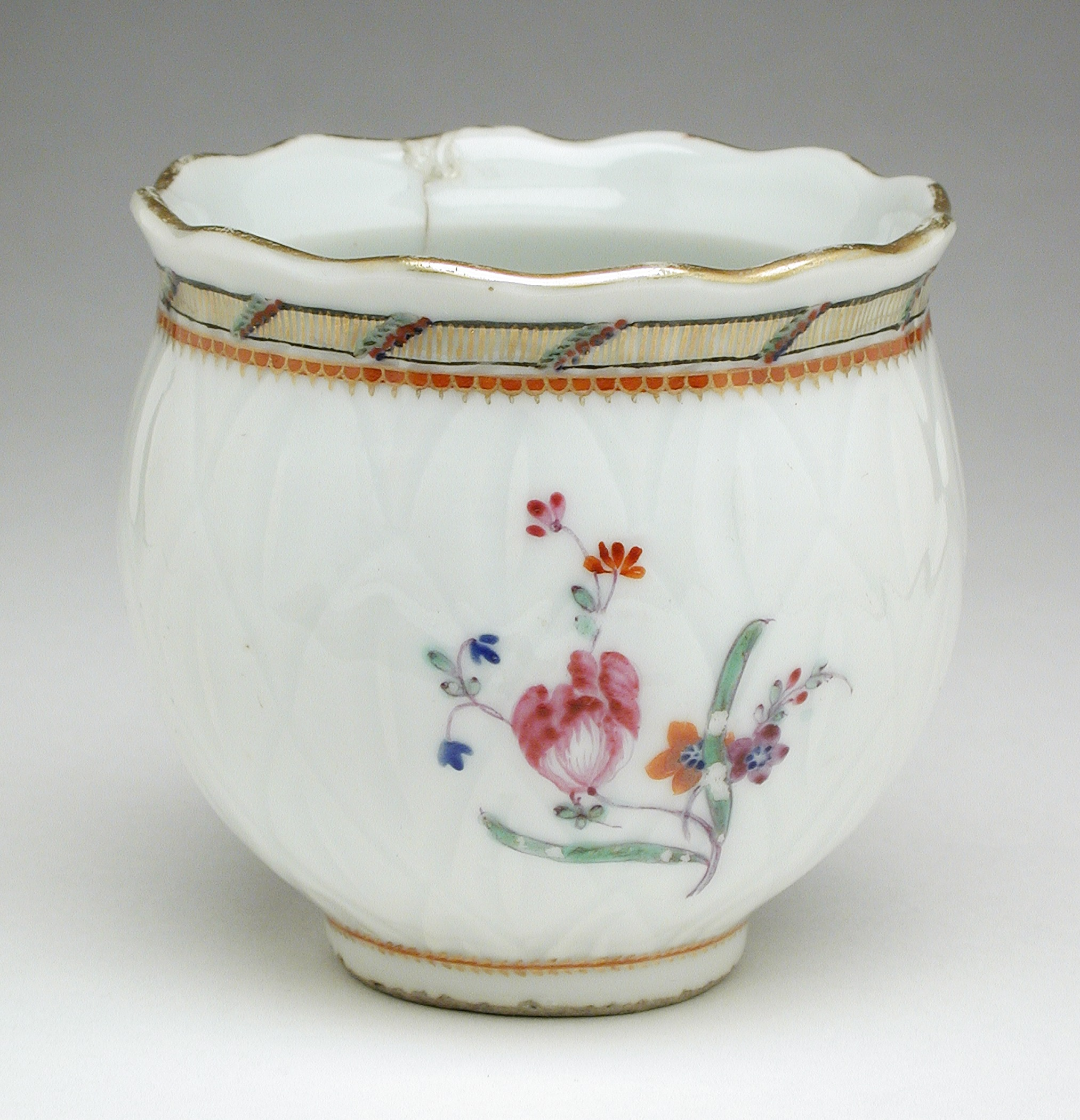 China, late 18th century Tools and Equipment; basins Porcelain Height: 2 1/2 in. (6.4 cm); Diameter: 2 1/2 in. (6.4 cm) Gift of Phyllis and Larry Margolies (AC1997.181.3) Decorative Arts and Design